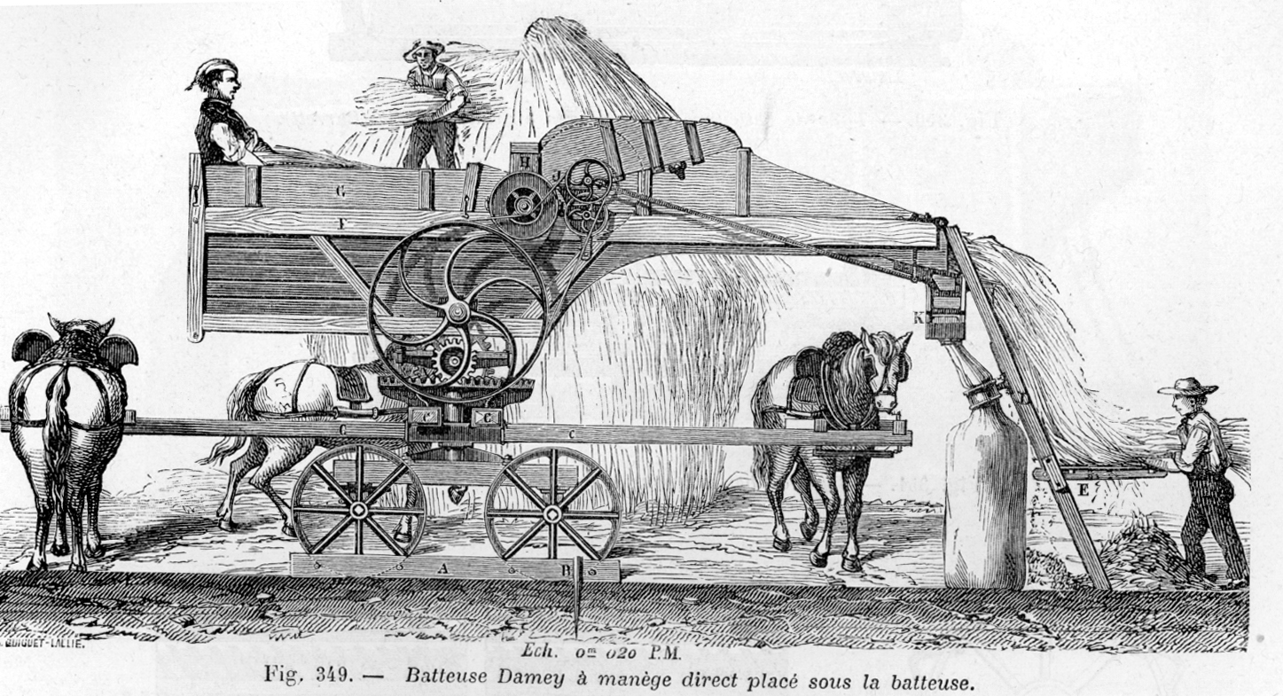 Drawing of a horse-powered thresher from a French dictionary (published in 1881)